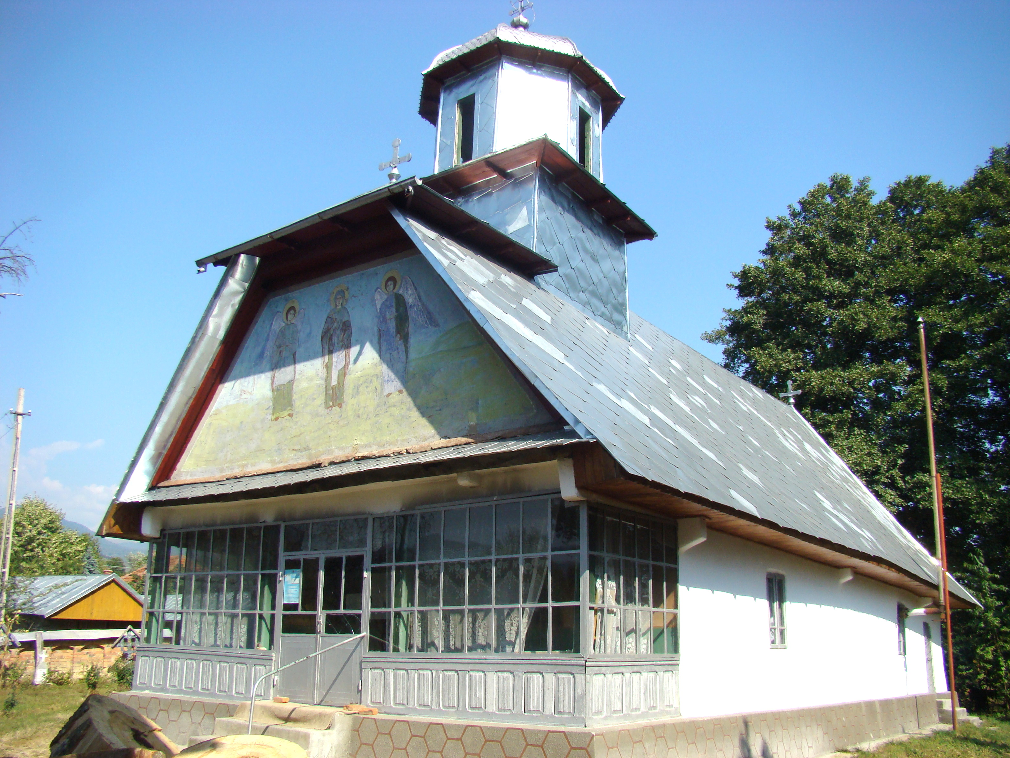 Wooden church of Pious Saint Parascheva in Cărpiniș, Gorj county, Romania